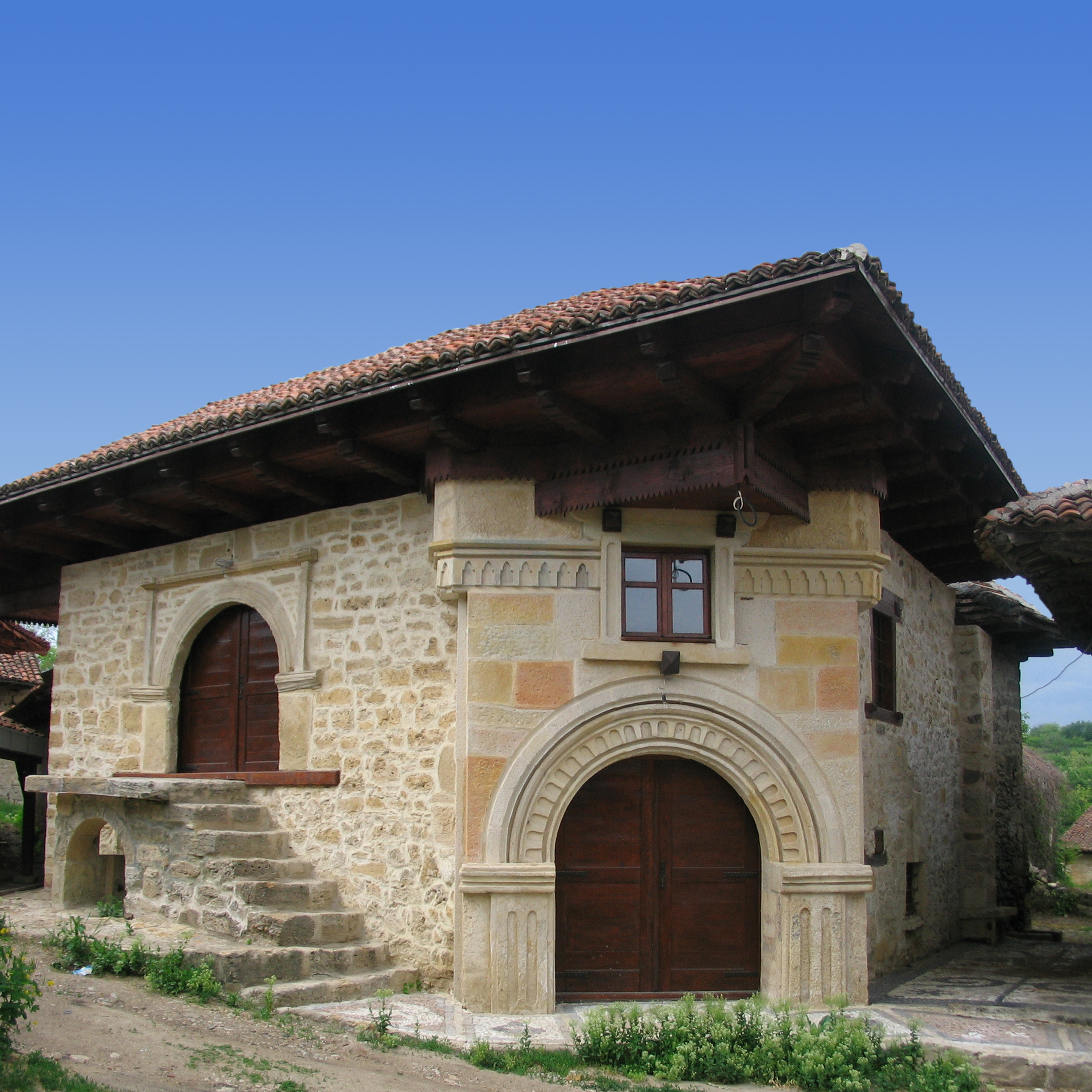 The Rajac wine cellars are an authentic example of ethno-architecture in Serbia and the region. They are under a strict protection regime as a rare spatial cultural and historical entity, namely, a cultural heritage of exceptional importance.